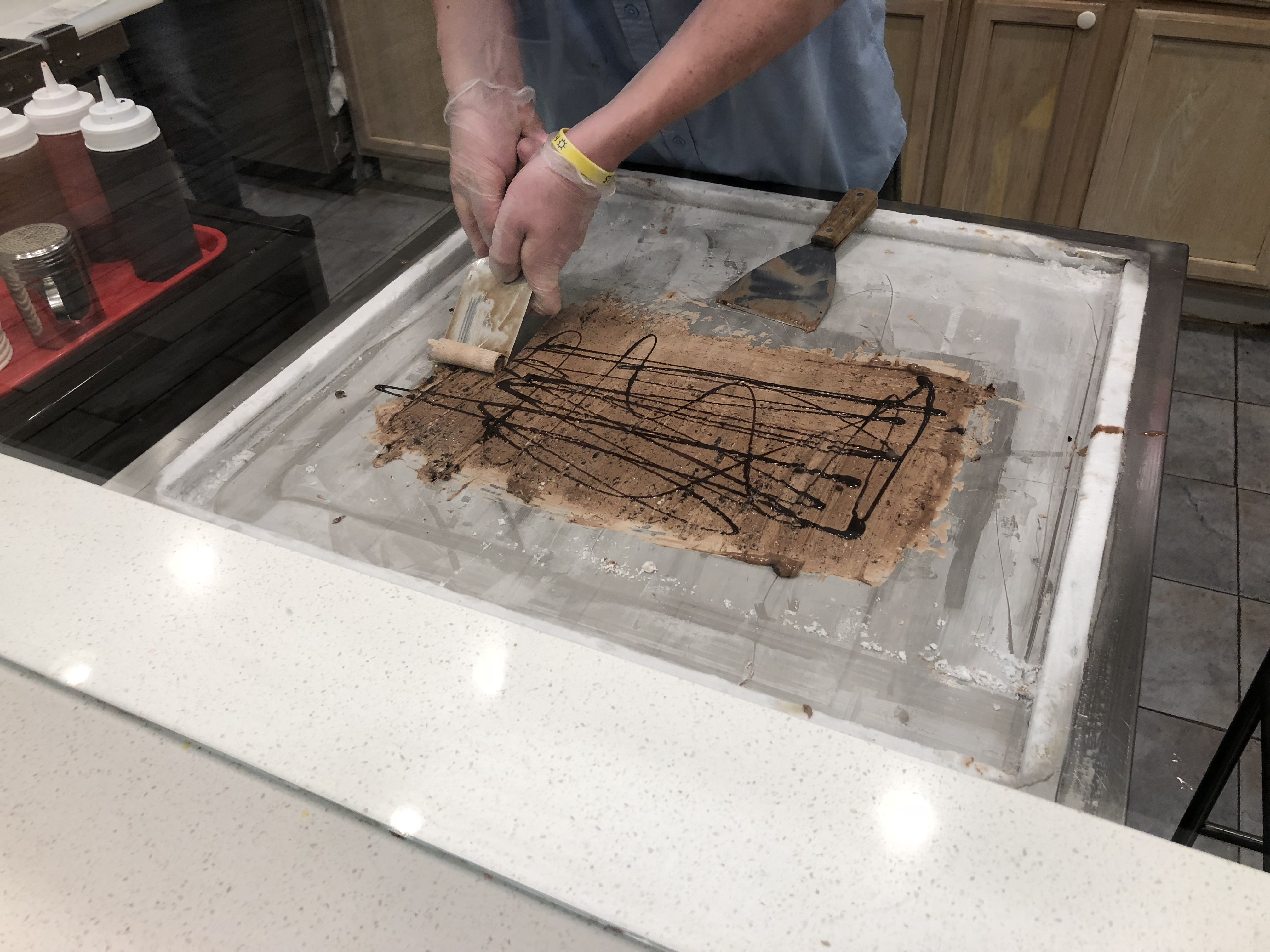 Stir-fried ice cream being prepared, East Cobb, GA